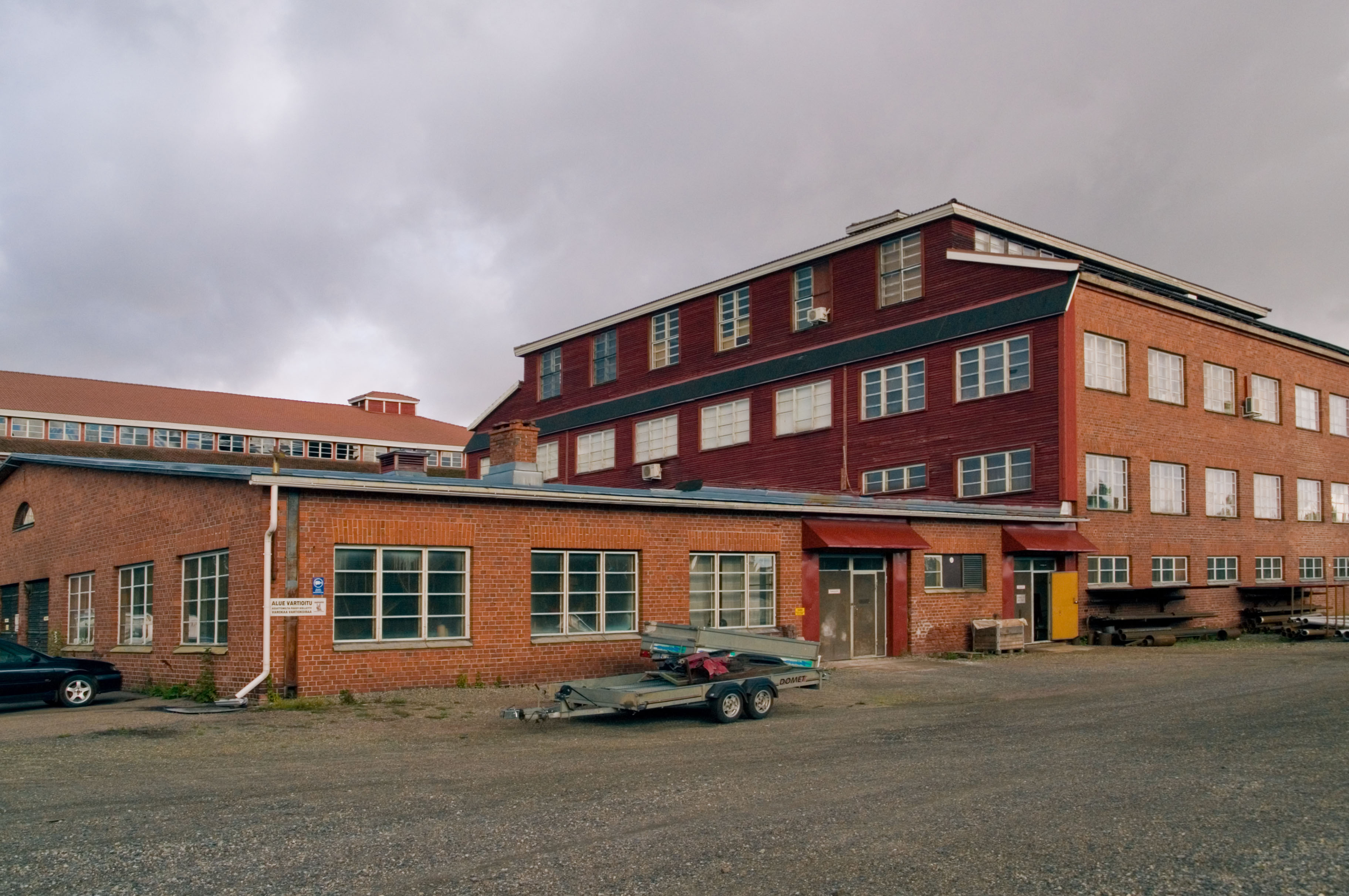 Former paper mill and leatherware factory in Vesikoski, Loimaa, Finland.